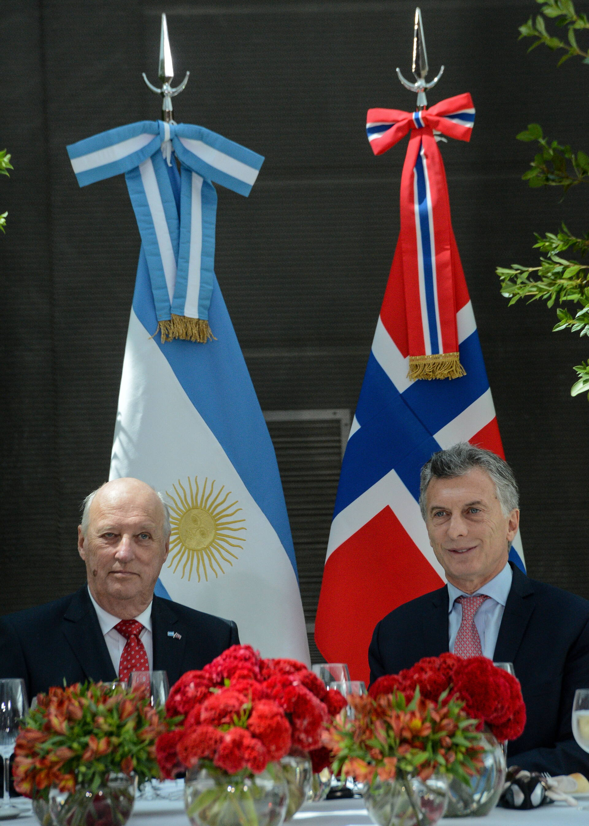 Harald V of Norway alongside Mauricio Macri during a state visit to Argentina in March 2018